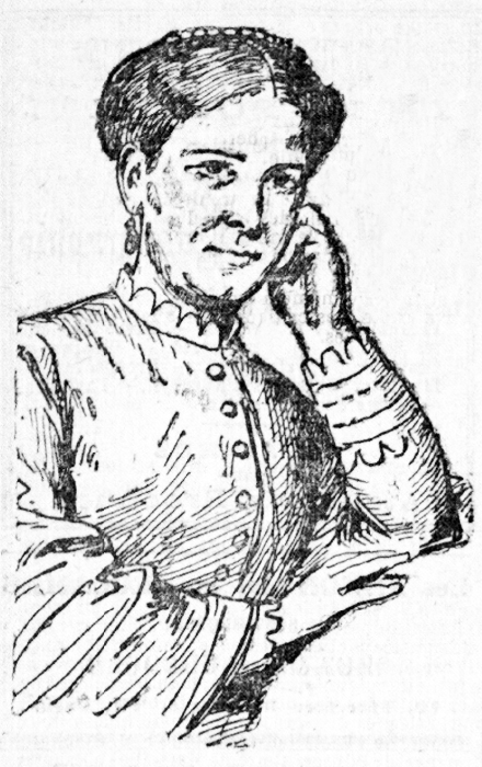 Adèle Blondin, first victim of french police officer Victor Prévost